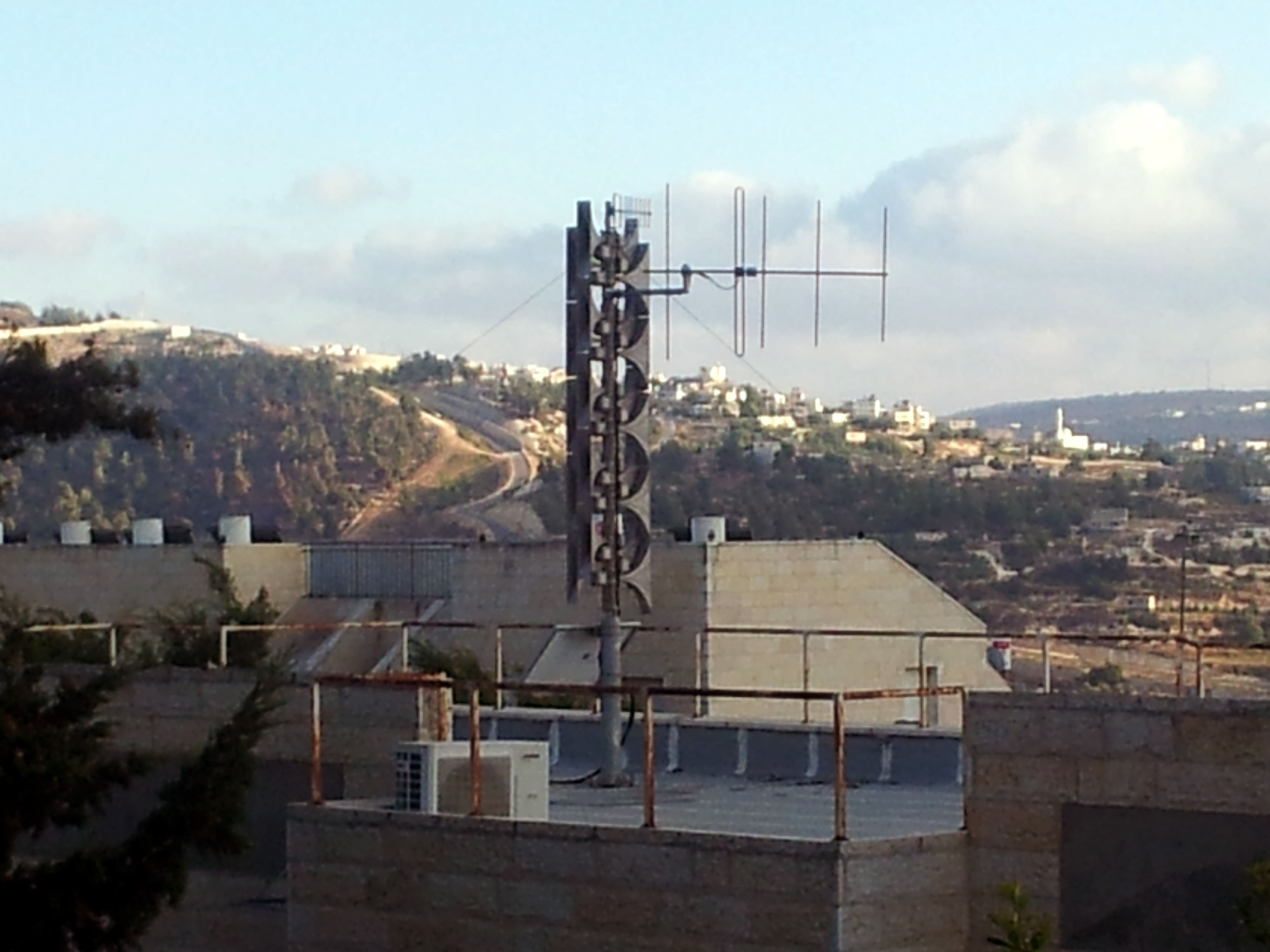 Israeli Electronic Air Raid Siren